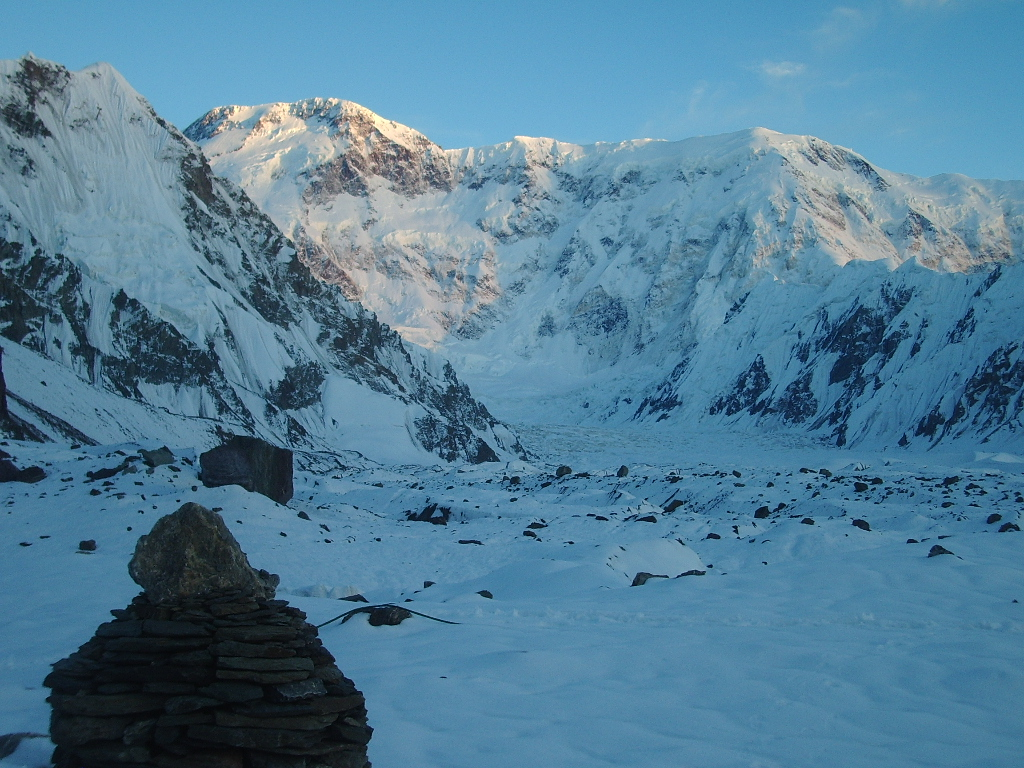 pobieda from kirghiz base camp